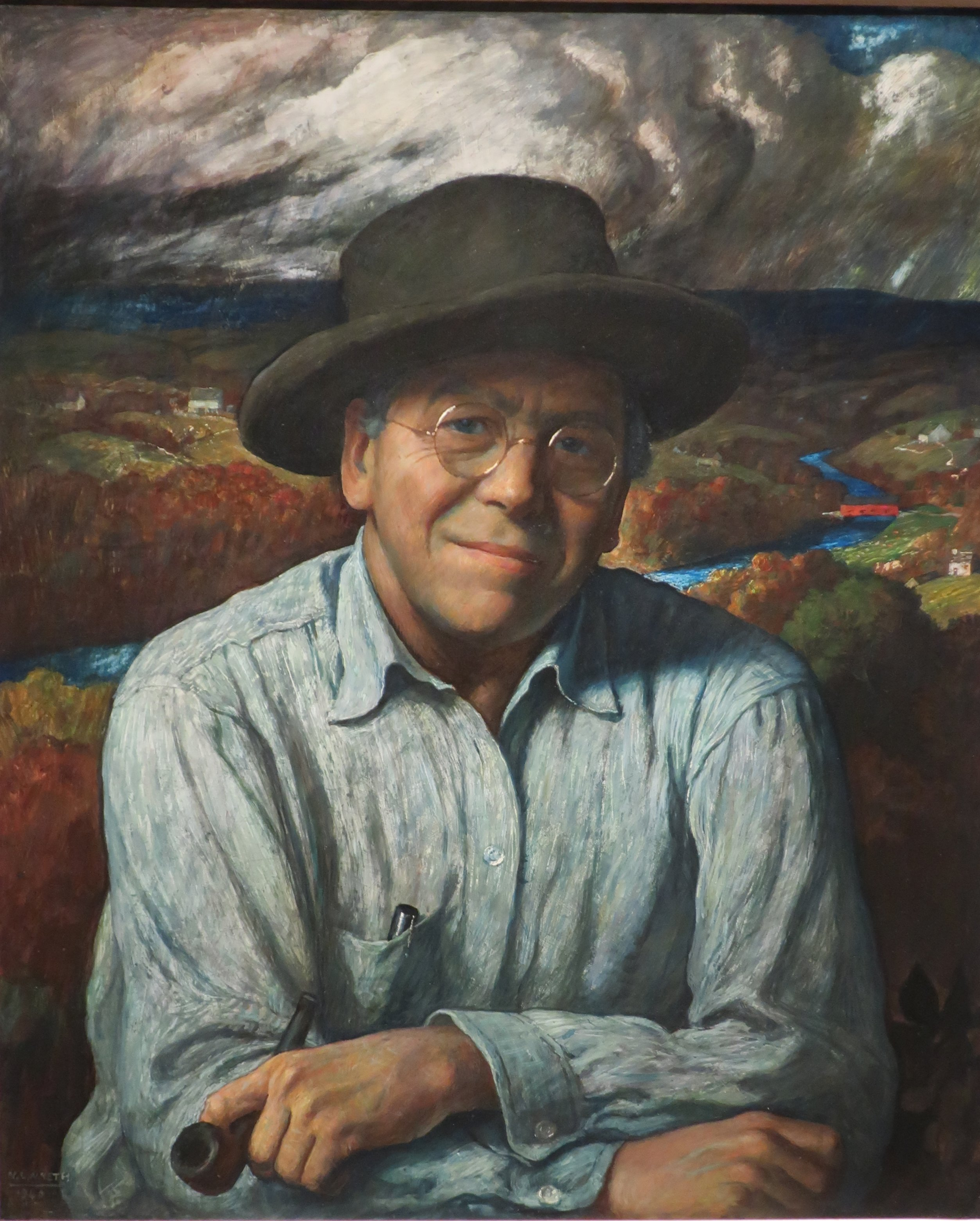 Self-portrait by N. C. Wyeth, 1940, egg tempera on gessoed panel, National Academy of Design